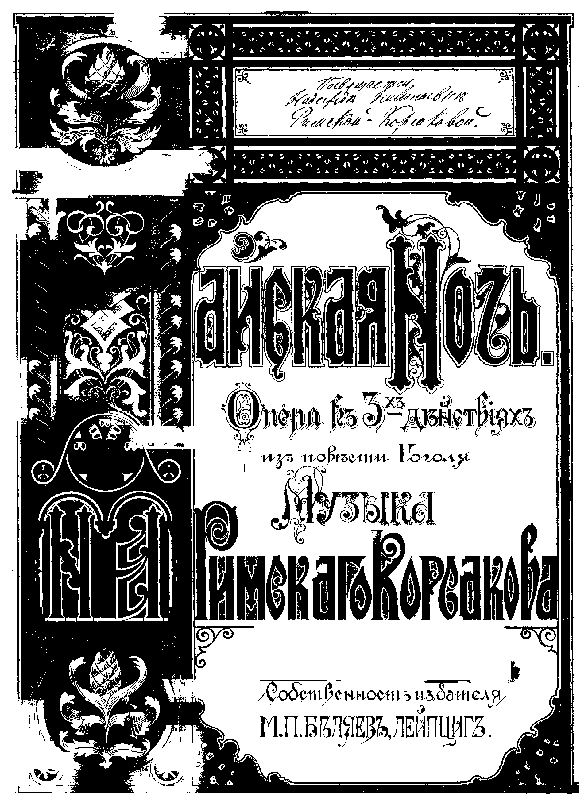 Rimsky-Korsakov - May Night - cover of the piano score